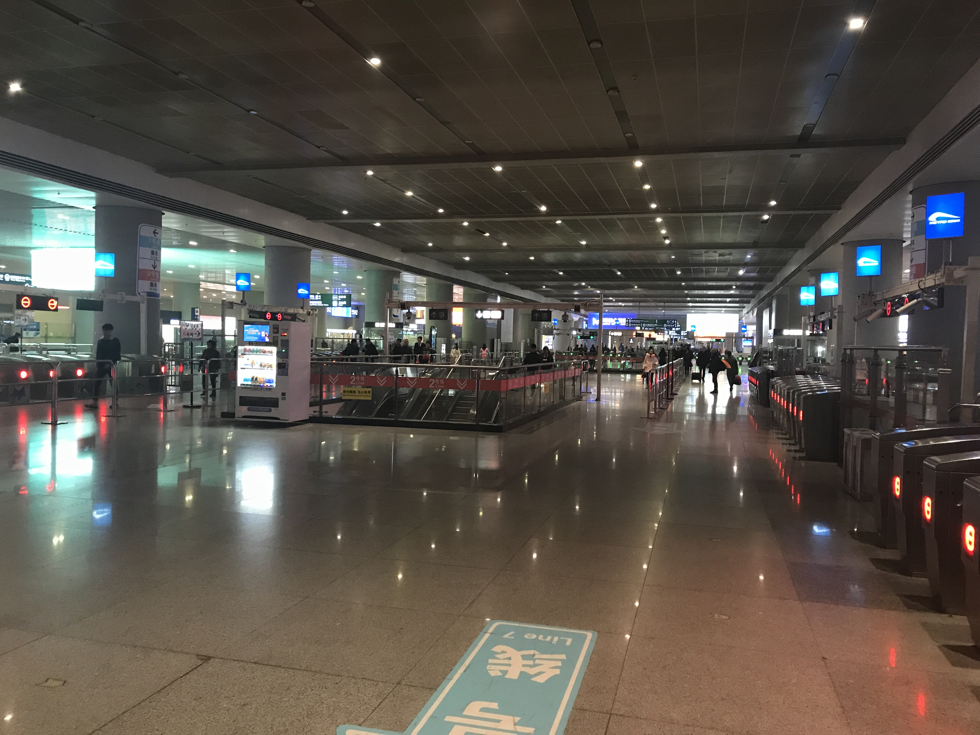 Concourse of Chengdu East Railway Station, Chengdu Metro